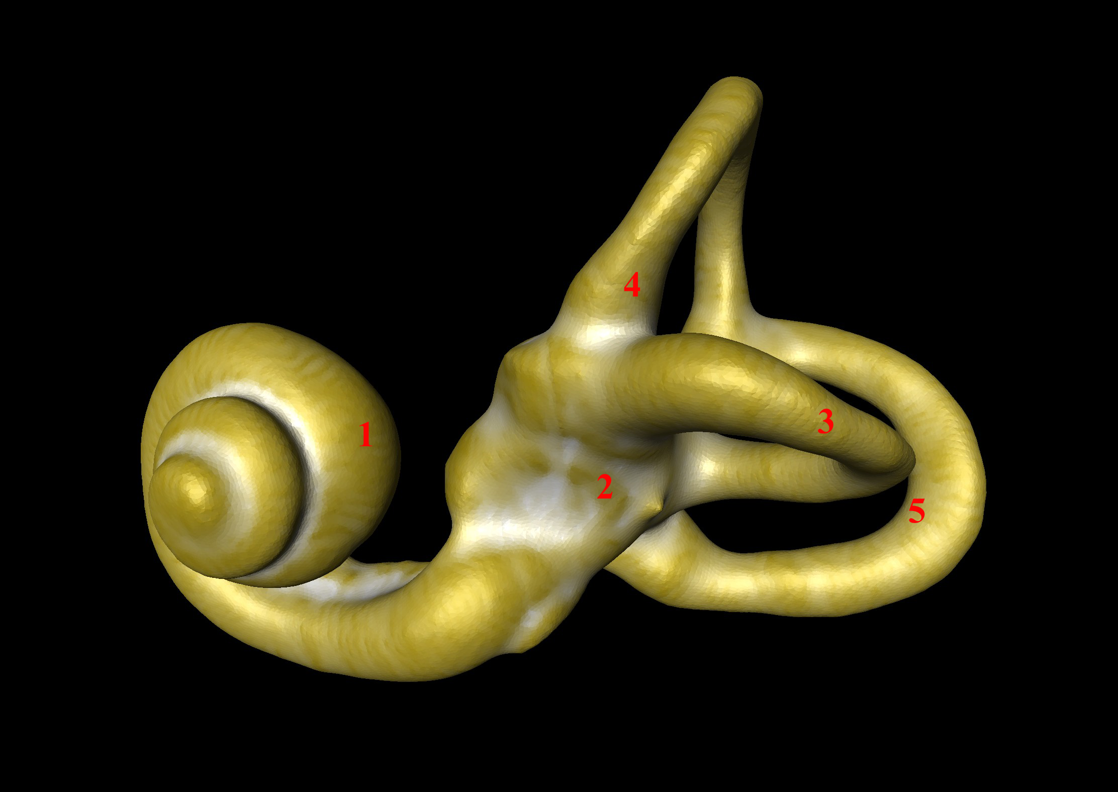 Human bony labyrinth / Computed tomography 3D - 1-Cochlea 2-vestibule 3-External ductus 4-Superior ducutus ampulla 5-Posterior ductus